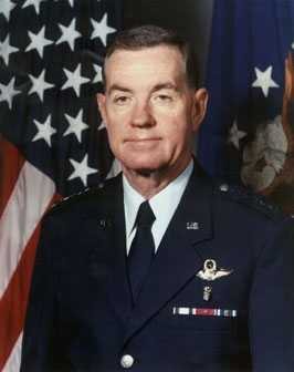 Lieutenant General (Dr.) Edgar R. Anderson Jr. from [1]